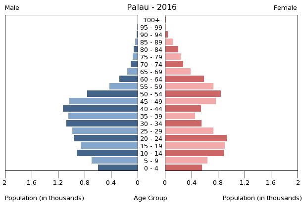 The population pyramid of Palau illustrates the age and sex structure of population and may provide insights about political and social stability, as well as economic development. The population is distributed along the horizontal axis, with males shown on the left and females on the right. The male and female populations are broken down into 5-year age groups represented as horizontal bars along the vertical axis, with the youngest age groups at the bottom and the oldest at the top. The shape of the population pyramid gradually evolves over time based on fertility, mortality, and international migration trends.